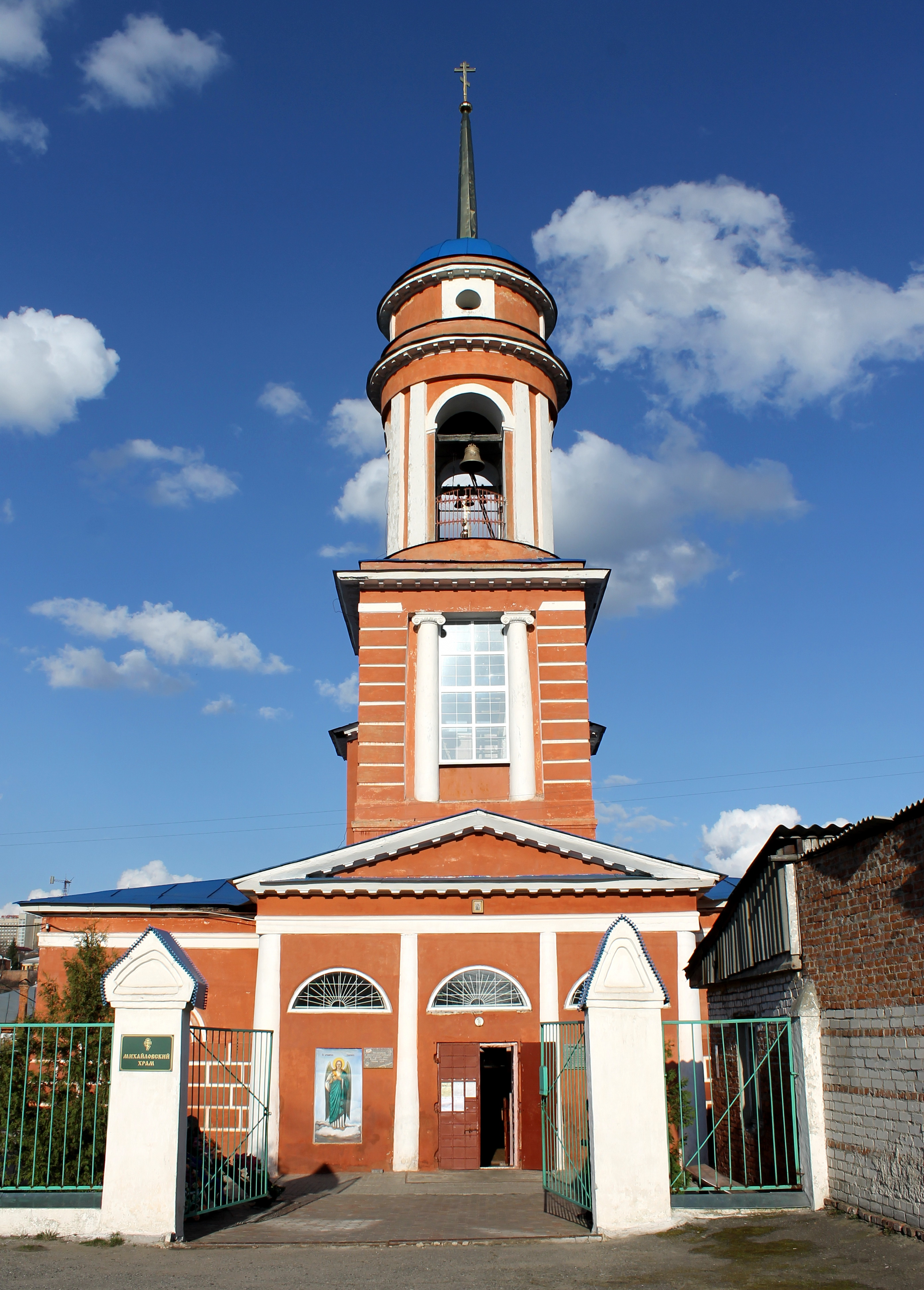 The Temple of Archangel Michael (Kursk)